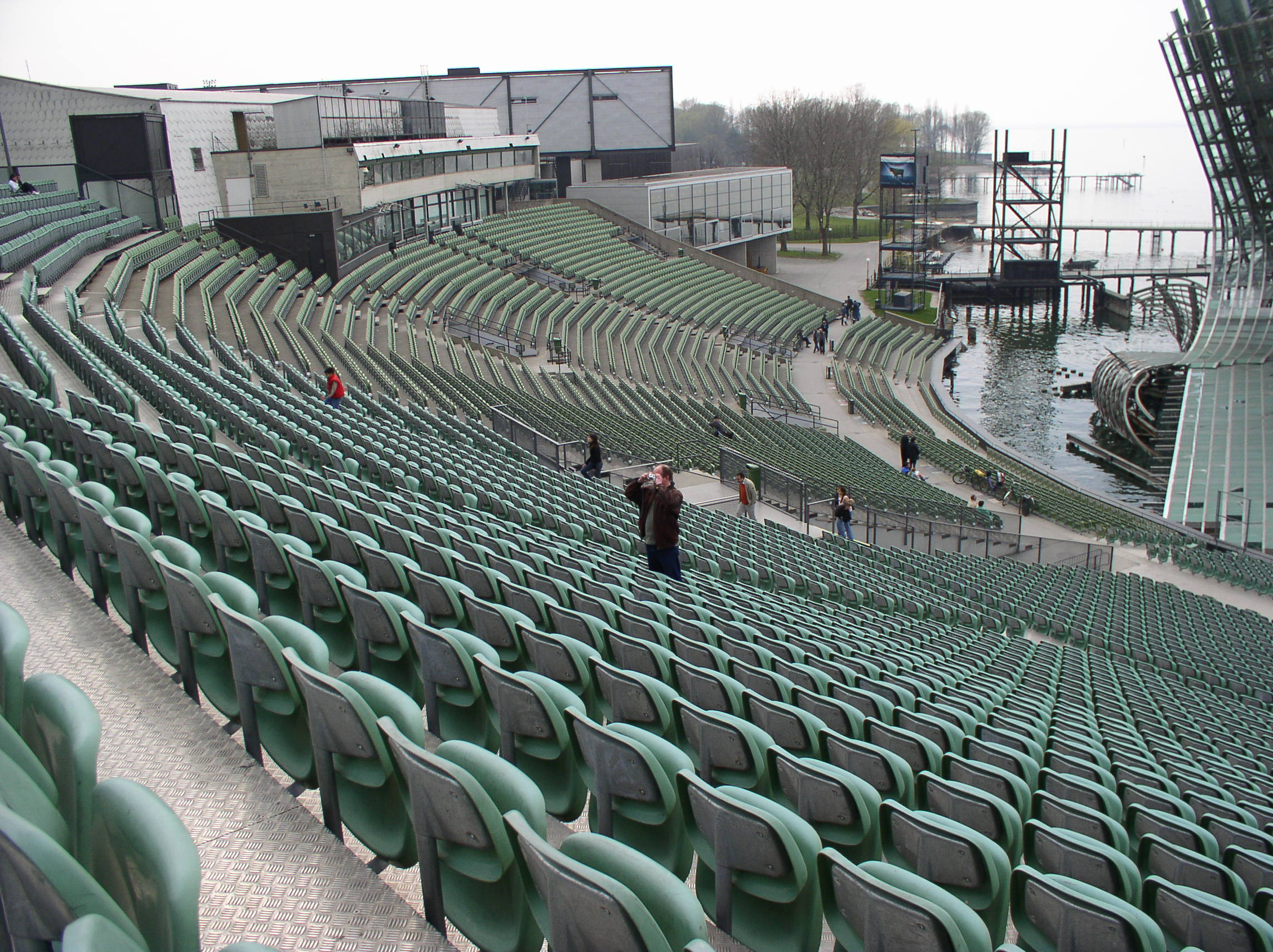 Description: Tribüne der Bregenzer Festspiele Source: photo taken by me, April 15, 2004 Photographer: Baikonur